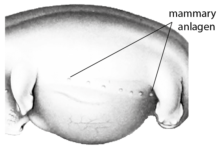 Standard Event System character depiction